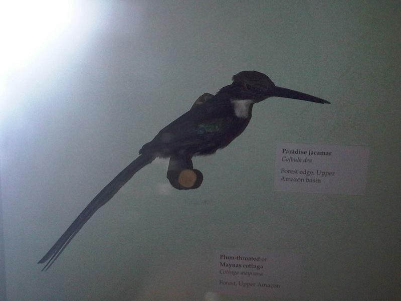 Taxidermied Paradise Jacamar (Galbula dea) at the Natural History Museum in London, England.